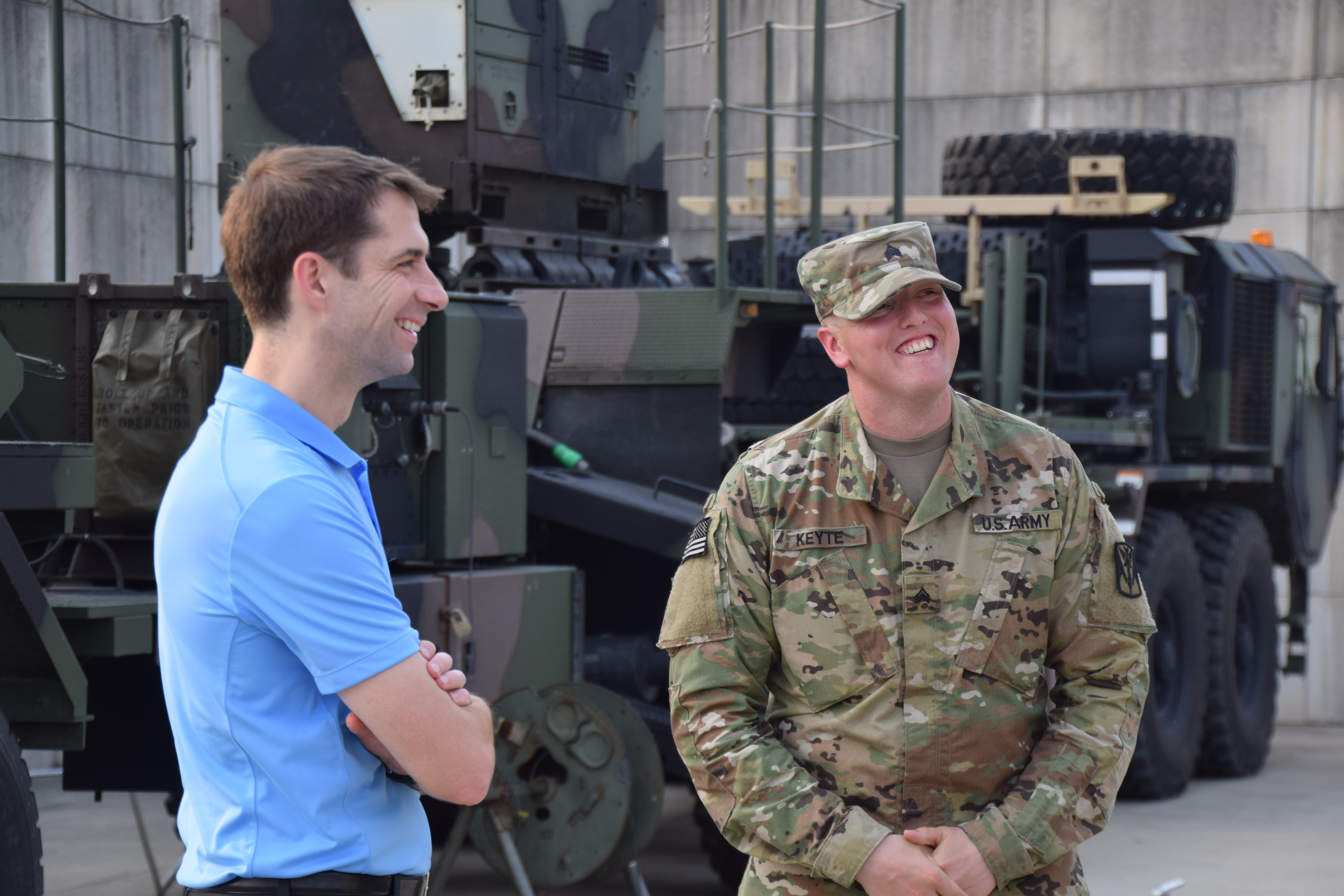 Sgt. Brett Keyte of Florence, Colo., shares a laugh with U.S. Sen. Tom Cotton during the Senator's visit to a Patriot missile tactical site at Osan Air Base, Korea. Sen. Cotton visited Korea as part of a three-country tour which included stops in Taiwan and Japan to visit key leaders and service members serving in the Pacific theater.